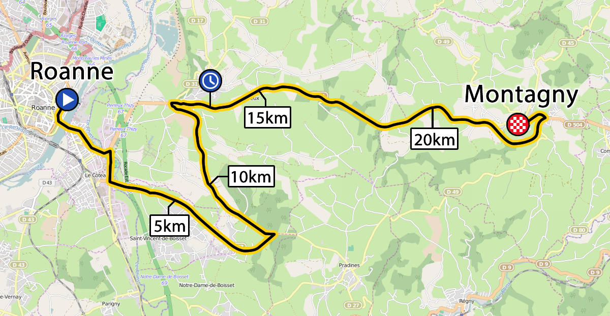 The route of the third stage of the 2015 Critérium du Dauphiné. This map may be incomplete, and may contain errors. Don't rely solely on it for navigation.